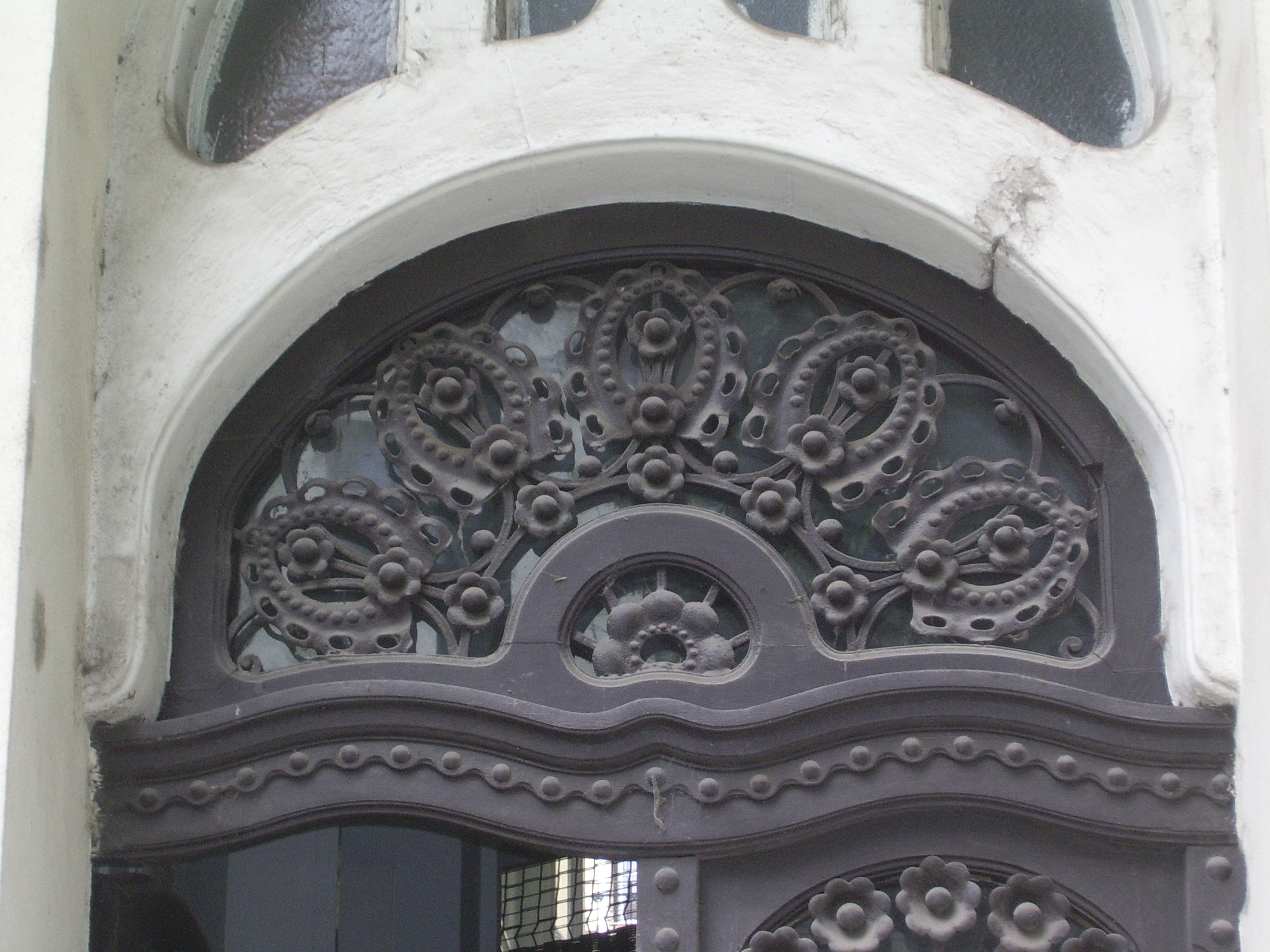 Detail of Art Nouveau overdoor and grille, at the DMKE-palota in Szeged, Hungary. This is a photo of a monument in Hungary. Identifier: 9213